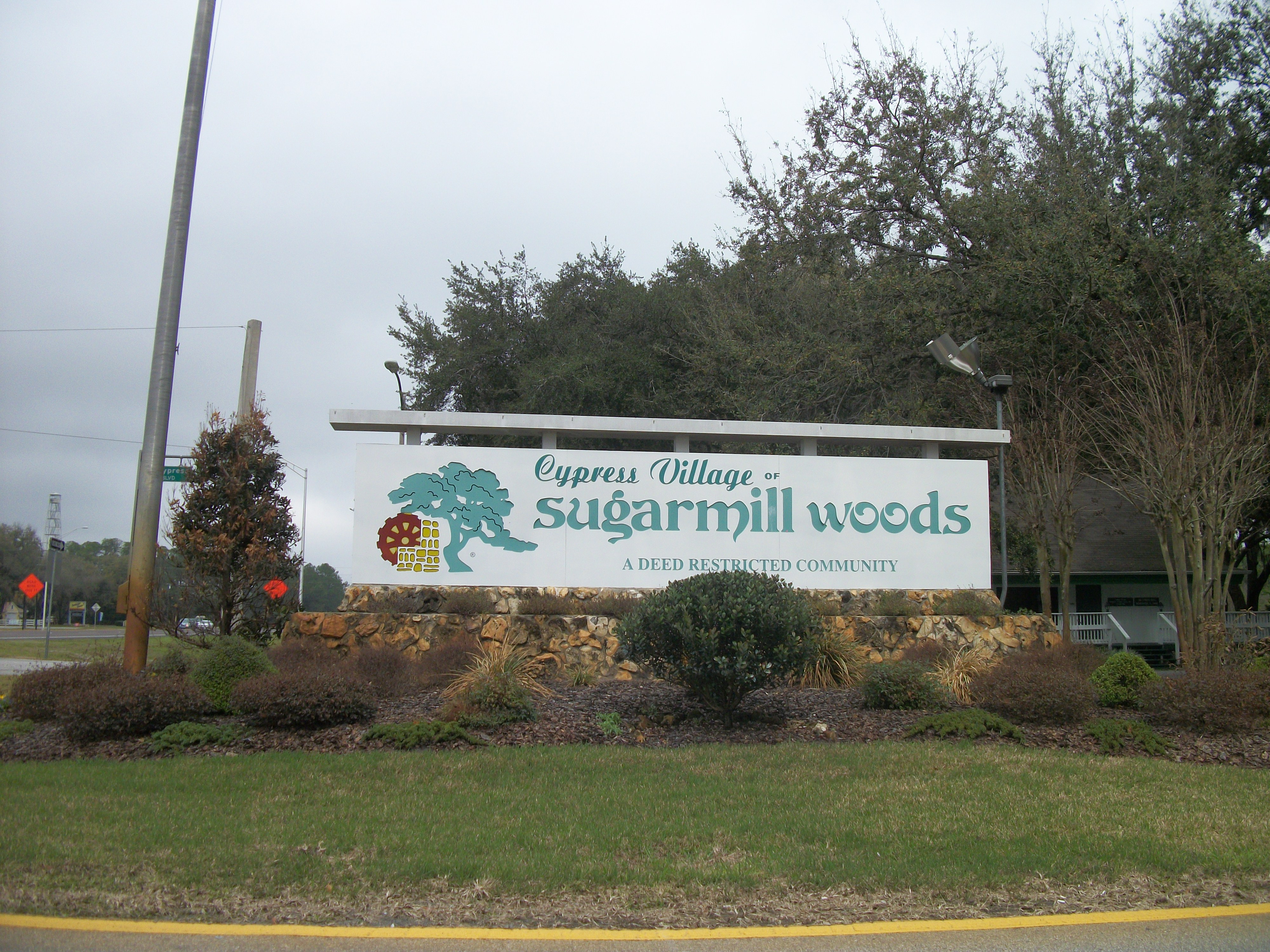 Sign at the Gateway to Sugarmill Woods, Florida along U.S. 19-98.